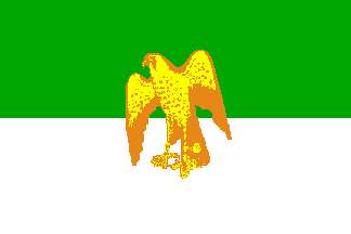 Municipal flag of Sokolov town, Czech Republic.